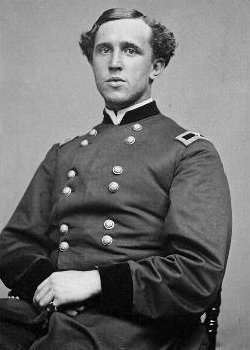 Gen. Charles C. Dodge, 1863